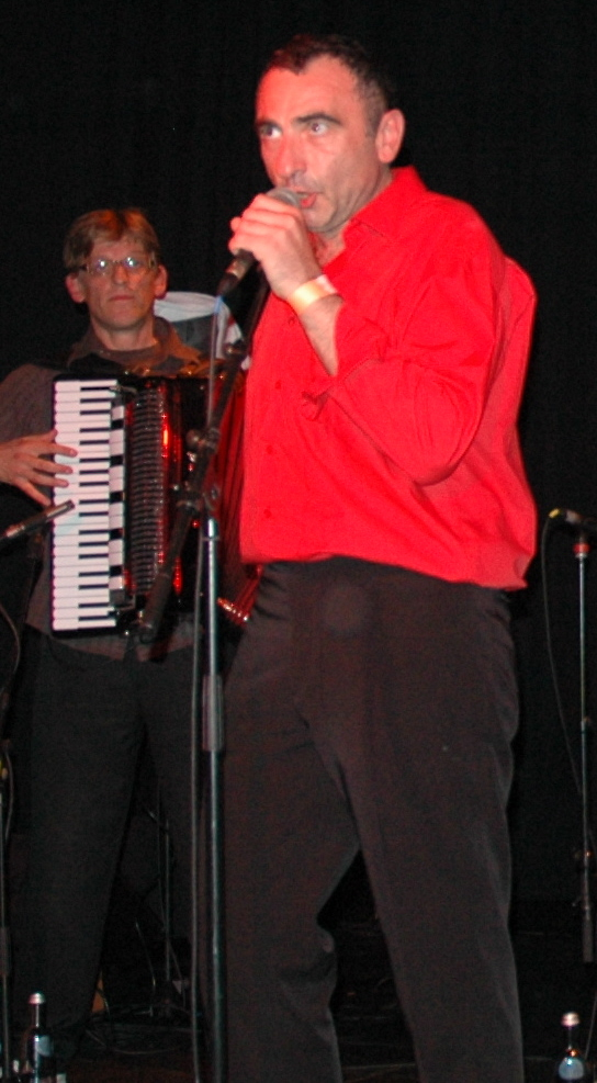 Amsterdam Klezmer Band singer Alec Copyt at the Gloria Theater in Köln, Germany